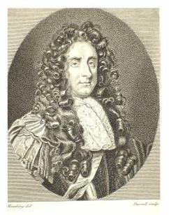 Engraved portrait of Louis de Duras, 2nd Earl of Feversham